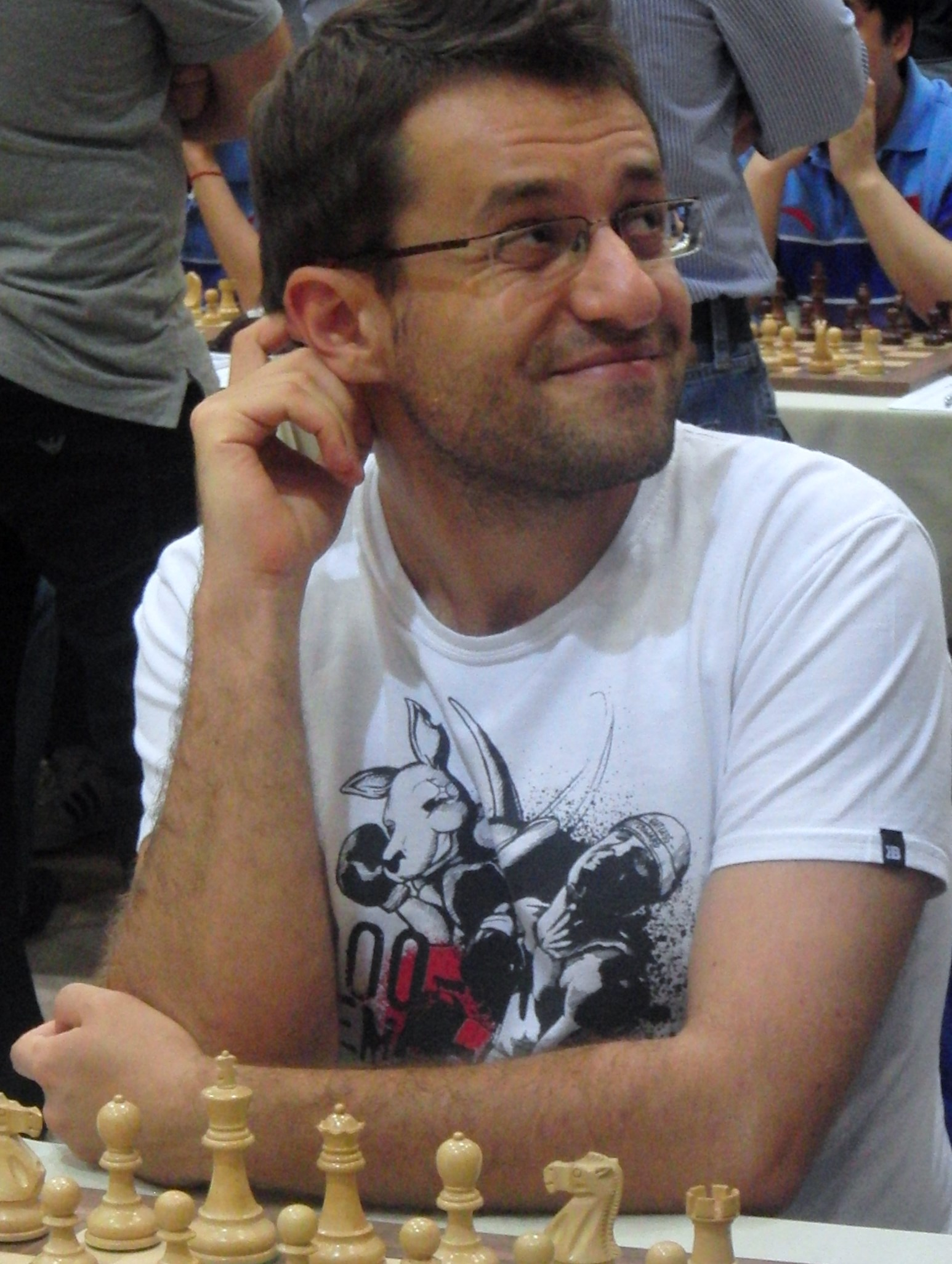 Levon Aronian, Chess Olympiad 2012 at Istanbul.